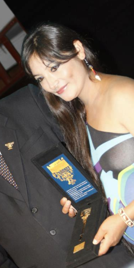 Peruvian actress Magaly Solier Romero in the IX International Short Film Festival (FENACO), 15 de noviembre de 2012. Lambayeque, Peru.